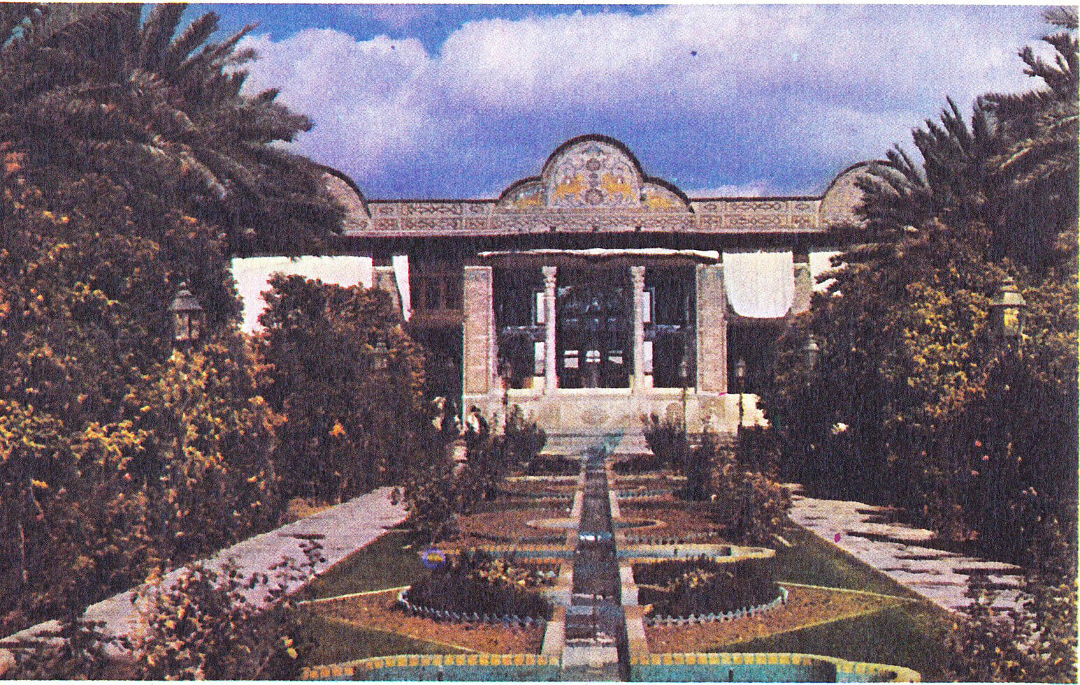 Former Institute of Asian Studies Pahlavi University Shiraz in 1970 — Shiraz, Iran. Present day, known as Ghavam—Qavam Garden (house) and Eram Garden